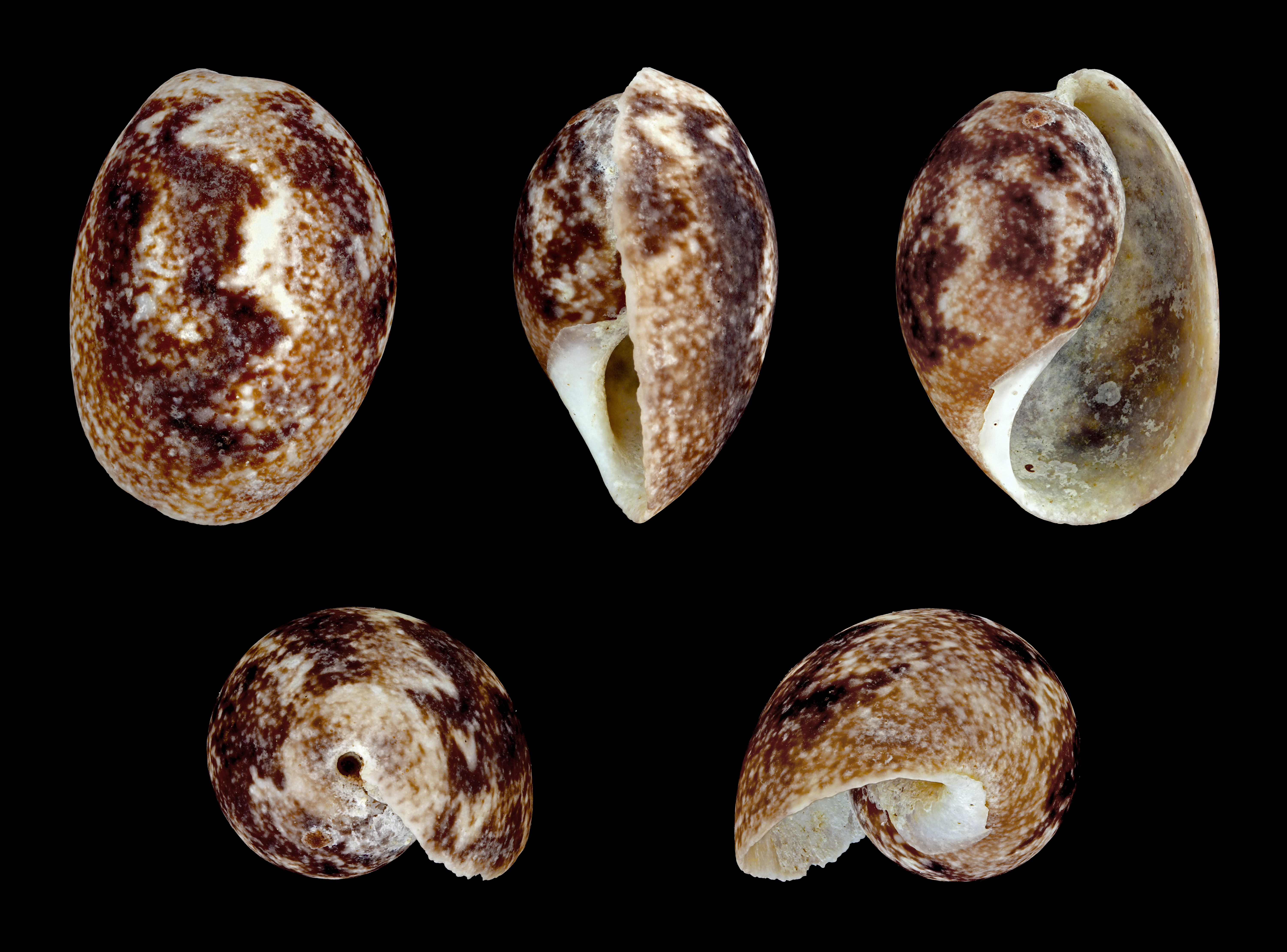 Large True Bubble, Length 3.8 cm; Originating from Mombasa, Kenya; Shell of own collection, therefore not geocoded. Dorsal, lateral (right side), ventral, back, and front view.